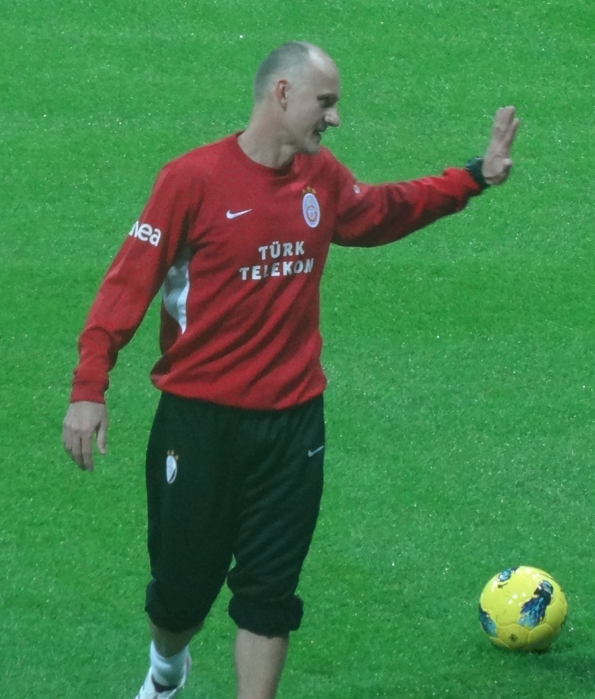 Taffarel